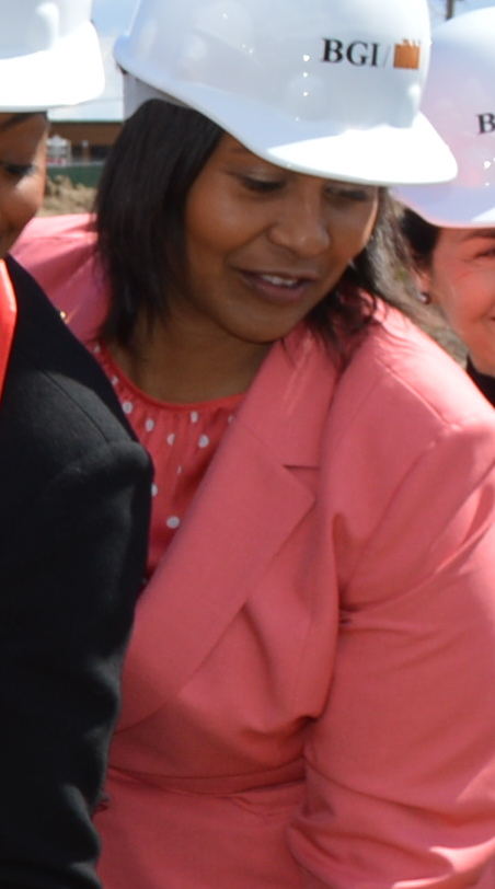 Congresswoman Nancy Pelosi joins Mayor Lee at the groundbreaking ceremony on the first two of five phases of the HOPESF rebuild of the Alice Griffith public housing development in Bayview Hunters Point. The project replaces all 256 distressed public housing units with new apartments with no loss of public housing, as well as builds 248 new affordable apartments for San Francisco’s working families.